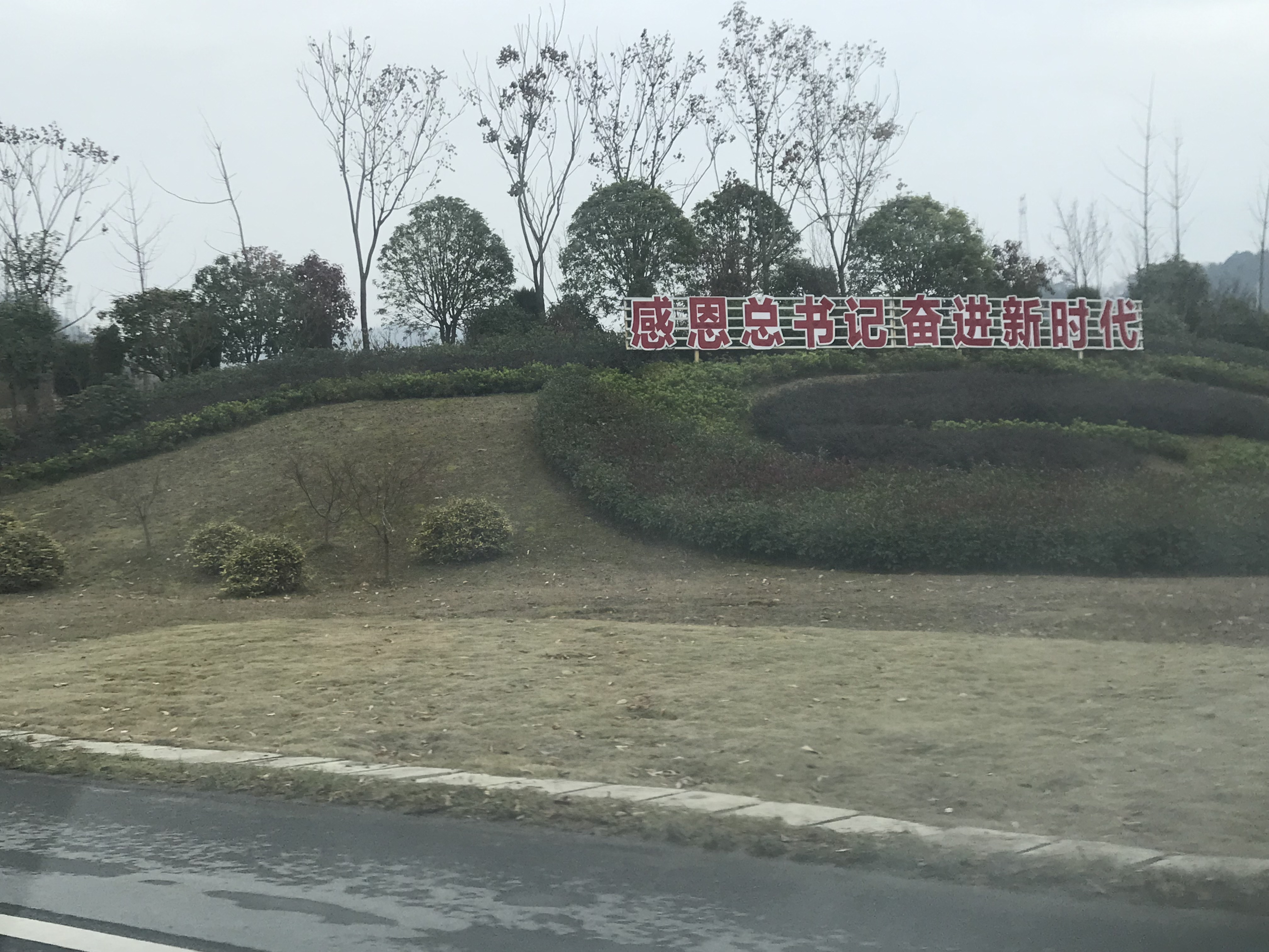 201812 "Grateful to General Secretary, Endeavoring to a New Era" Slogan in Chun'an